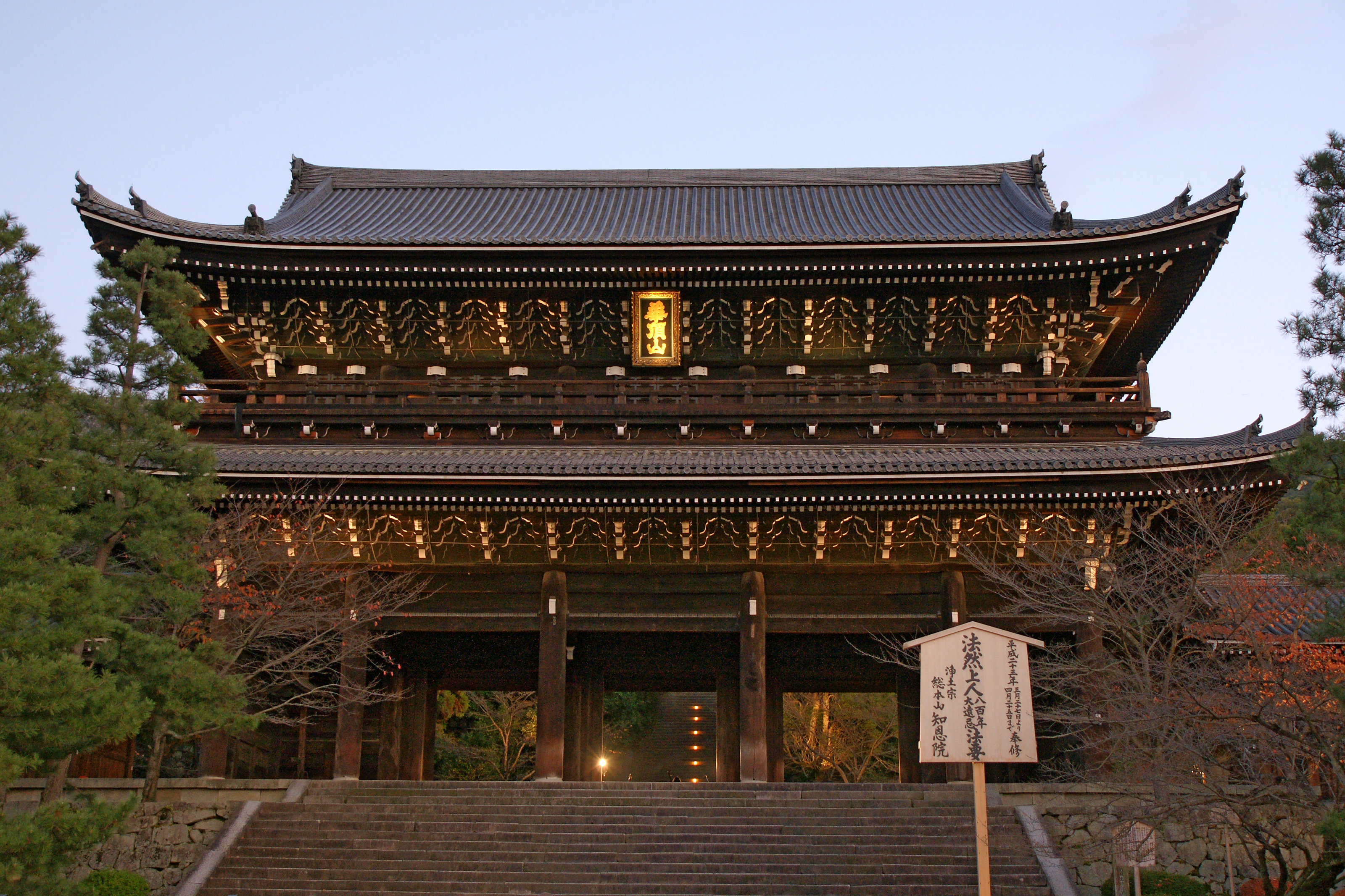 Sanmon of Chion-in Buddhist temple (Japan's national treasure), Kyoto, Kyoto Prefecture, Japan. It was rebuilt in 1621.